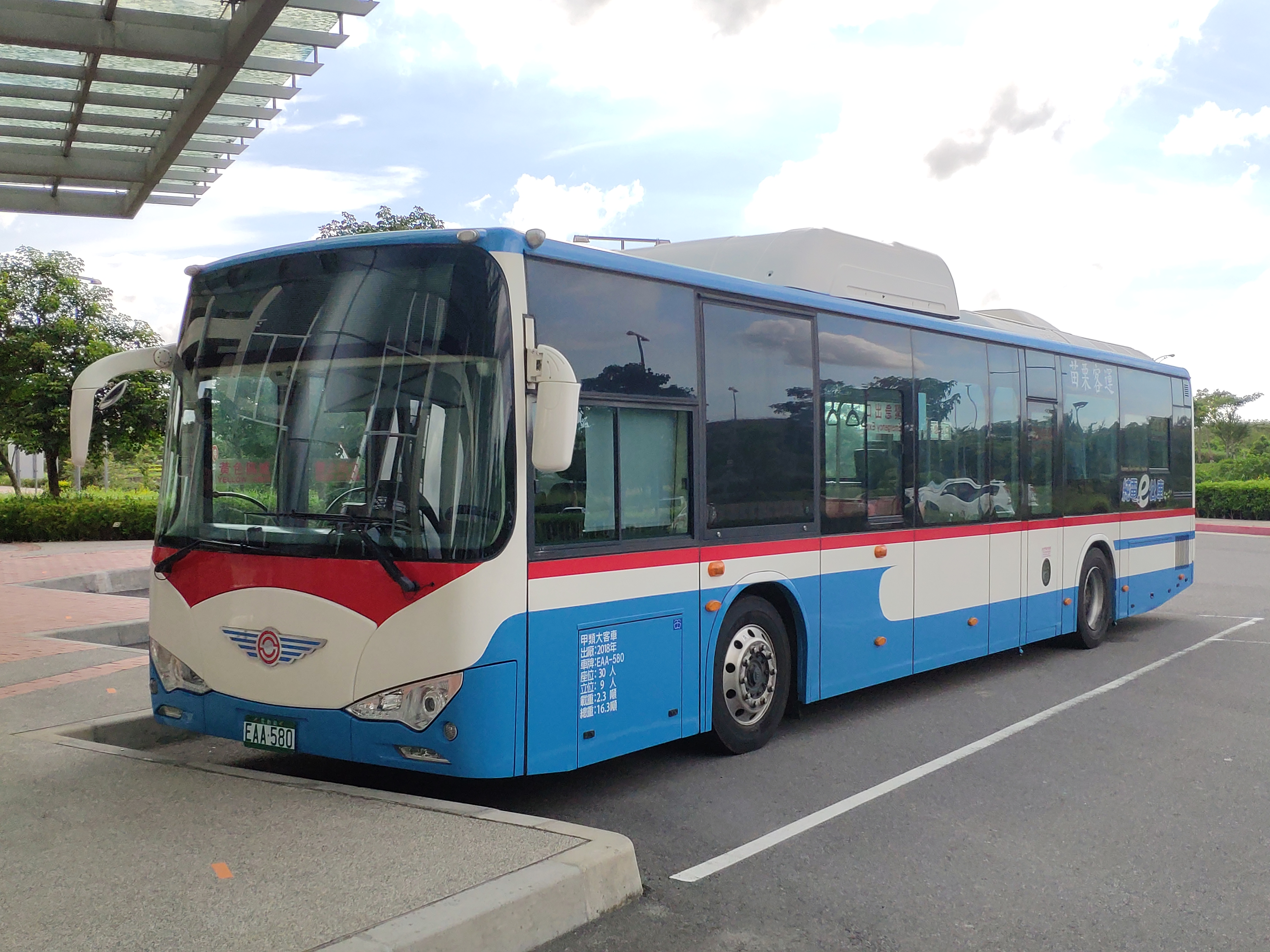 2018 BYD K9 EAA-580